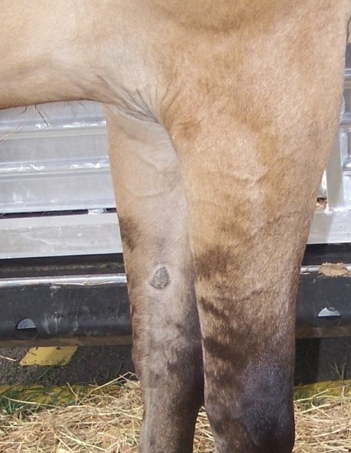 Primitive markings or counter shading on a domestic horse